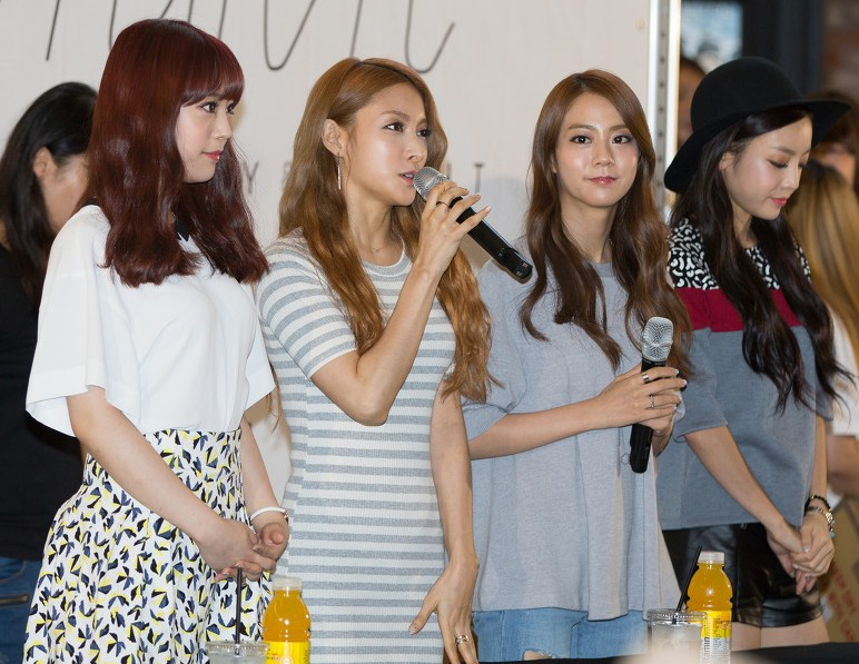 Kara at the fansigning for their mini album "Day & Night", 30 August 2014